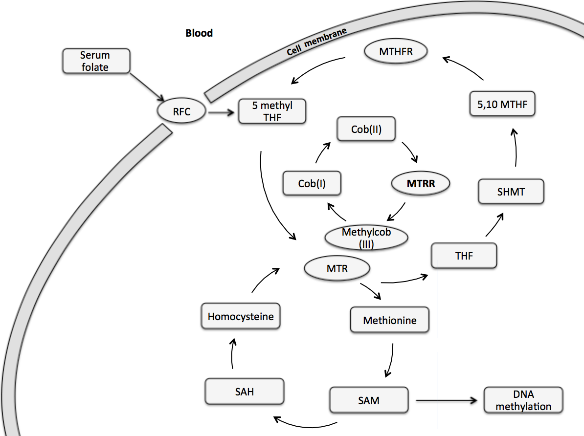 Pathway of folate transport into cells